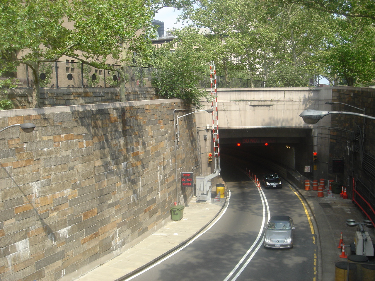 I took this photo in July 2006 and release it into the public domain. Manhattan exit